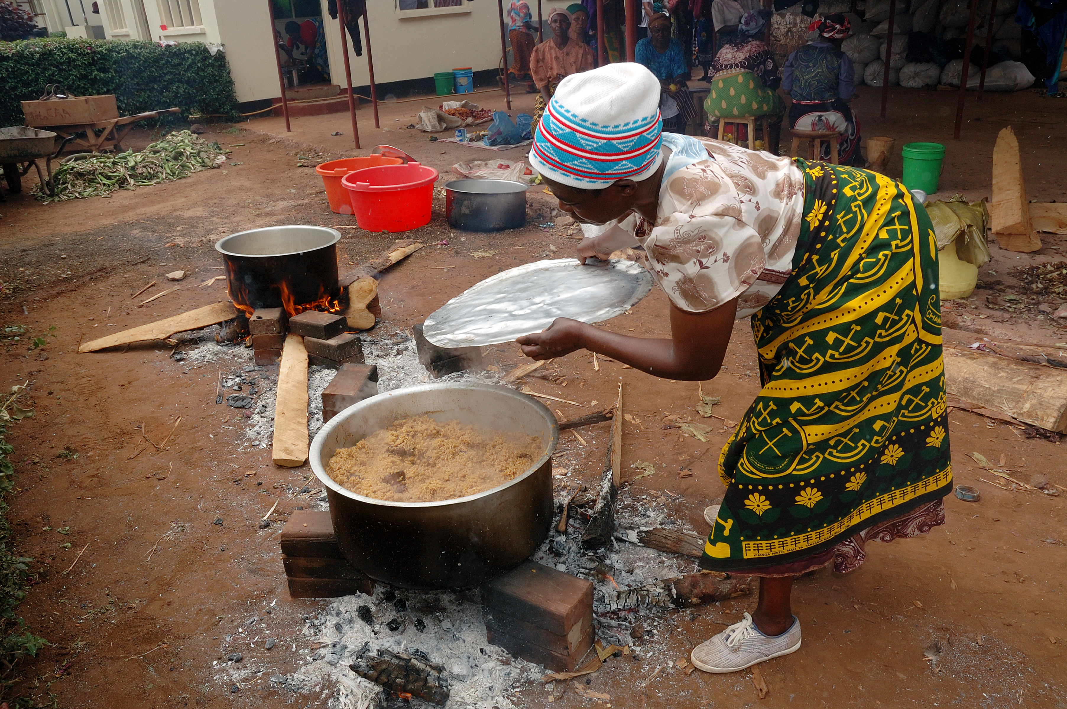 A woman in wraparound khanga cooking pilau rice dish on open fire.